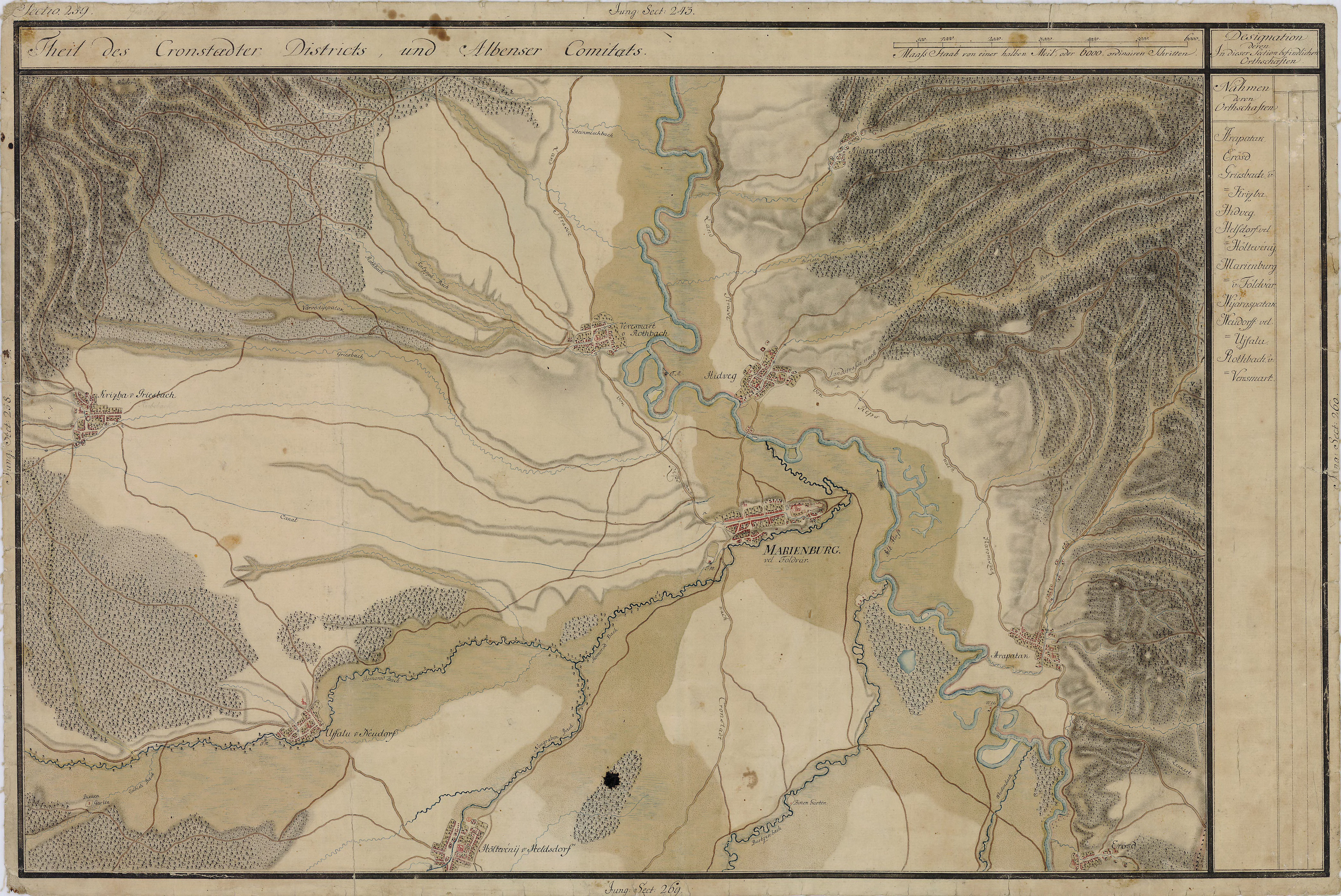 Grand Duchy of Transylvania, 1769-1773. Josephinische Landaufnahme pg.259Română: Harta Iosefină a Transilvaniei, 1769-1773. Josephinische Landaufnahme pg.259